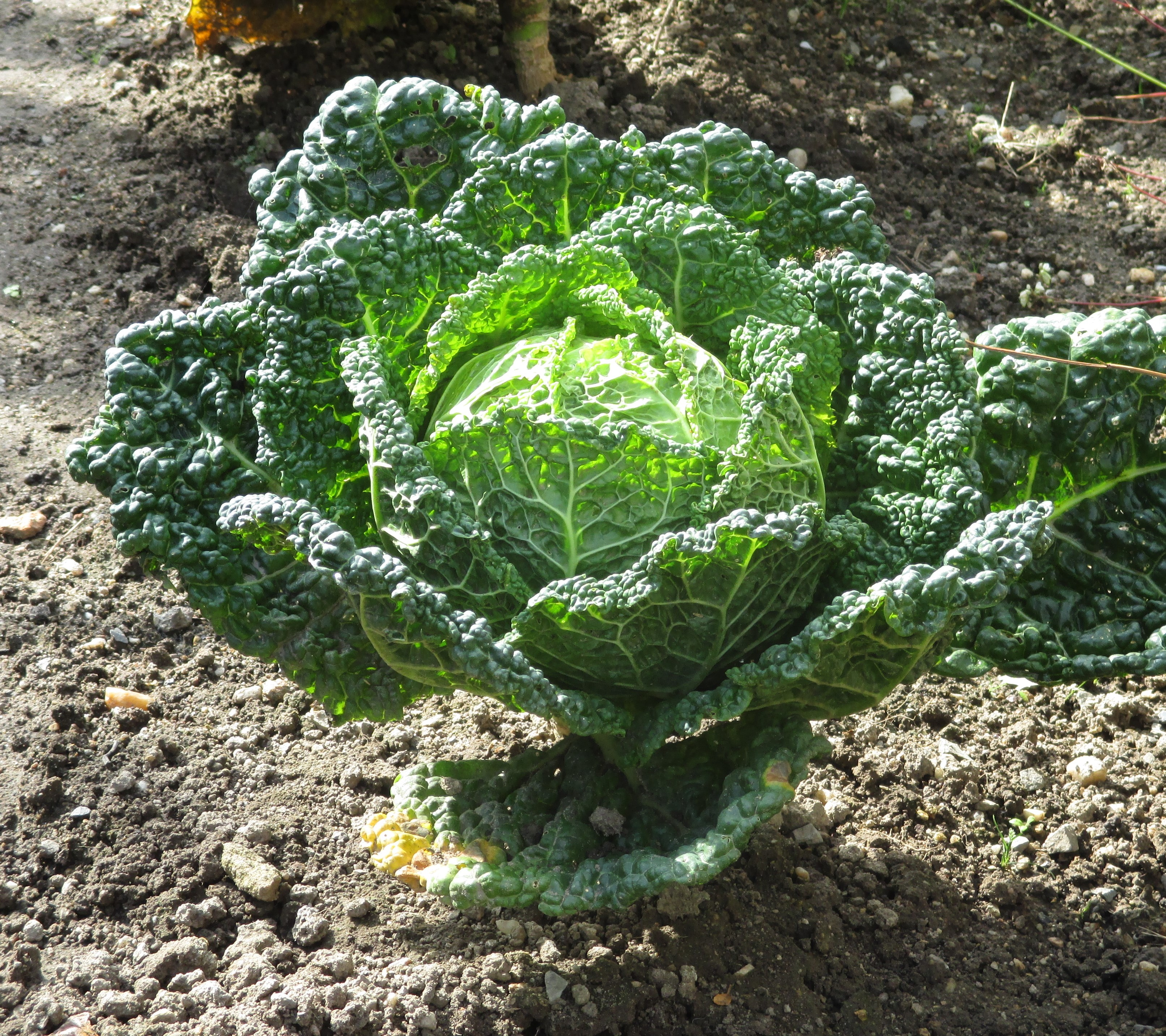 (translation) In addition to the use in the kitchen, this vegetable is also used in medicine. Savoy cabbage rolls help with rheumatism, gouty pain and fever.